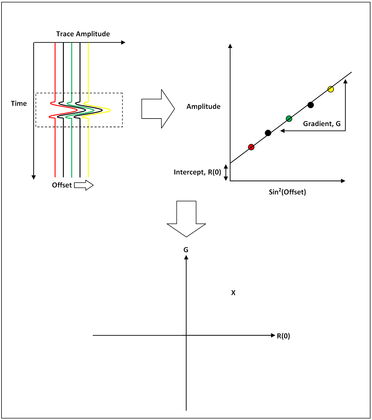 Methodology for the construction of an AVO crossplot. The gathers are conditioned so that they reference the same two-way time and the amplitude is extracted across a given time. Each amplitude is plotted against Sin^2 (offset) and a best-fit line is fitted. The gradient and intercept of this line are then plotted against each other and the process is repeated for all time samples and all gathers